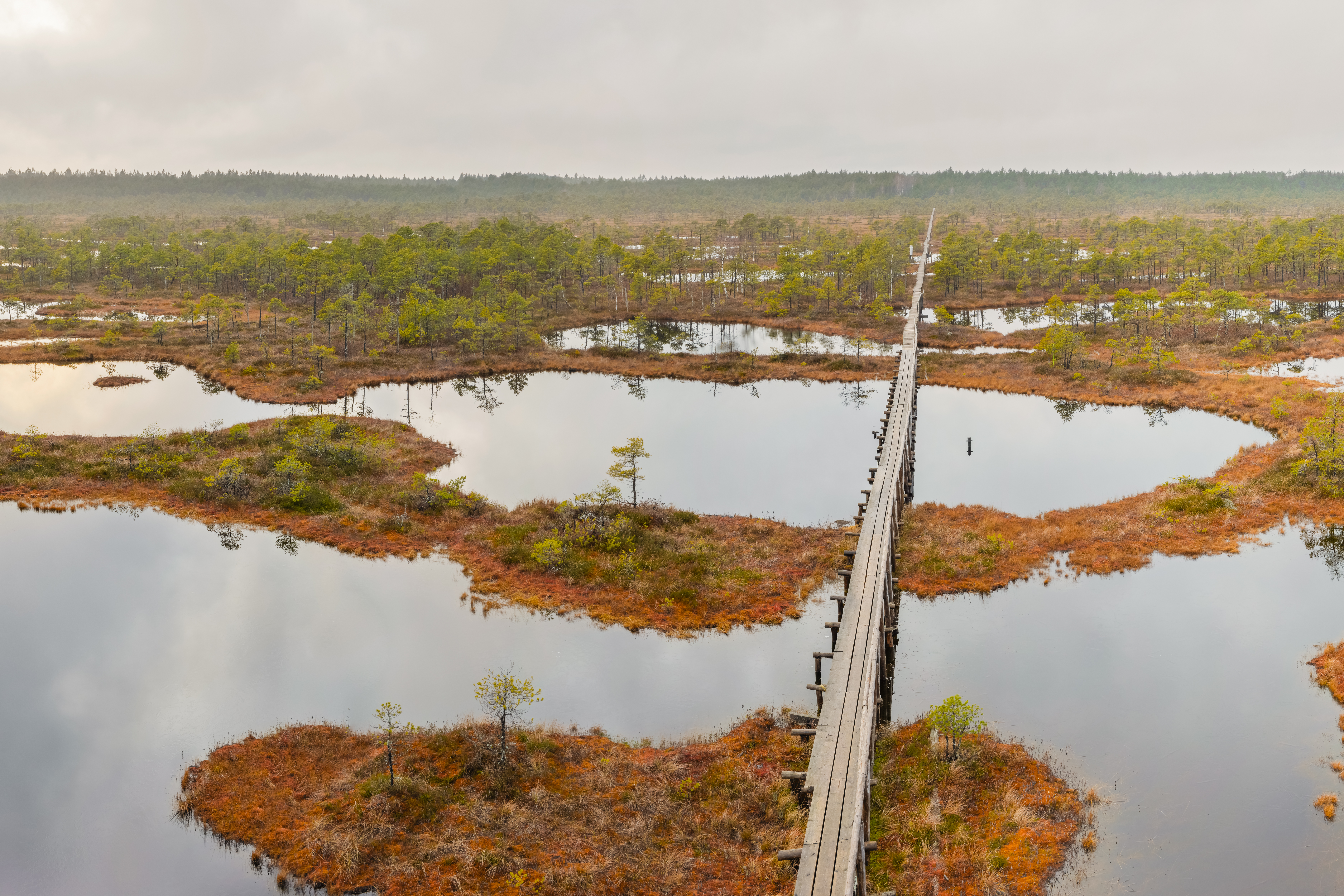 View from watchtower to Männikjärve Bog, Endla Nature Reserve, Estonia